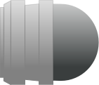 Simple vector version of File:Paixhans_Shell_and_Sabot.jpg